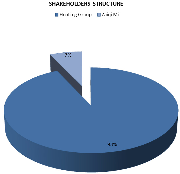 Shareholder Structure